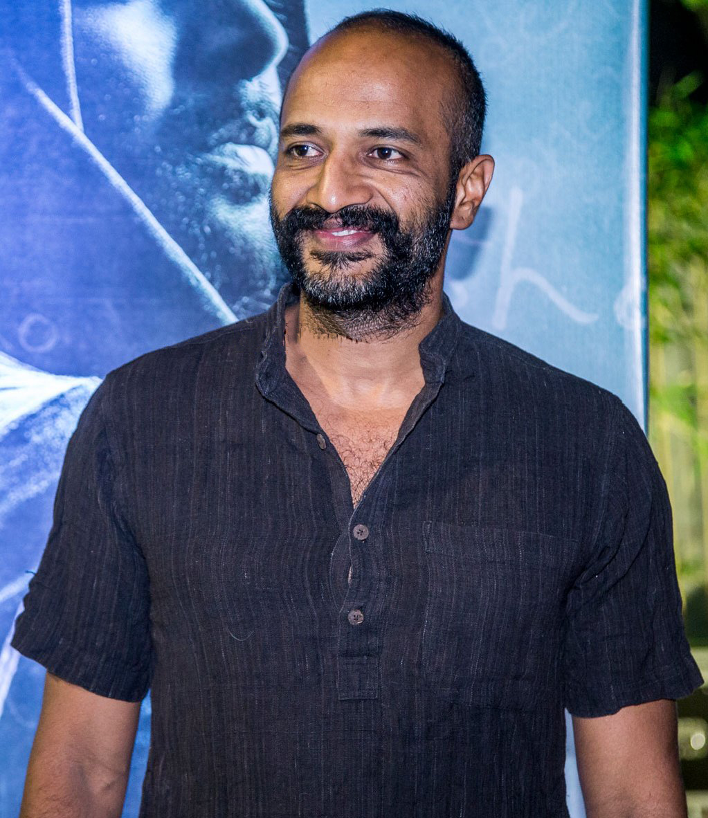 Kishore at Yaarivan Audio Launch